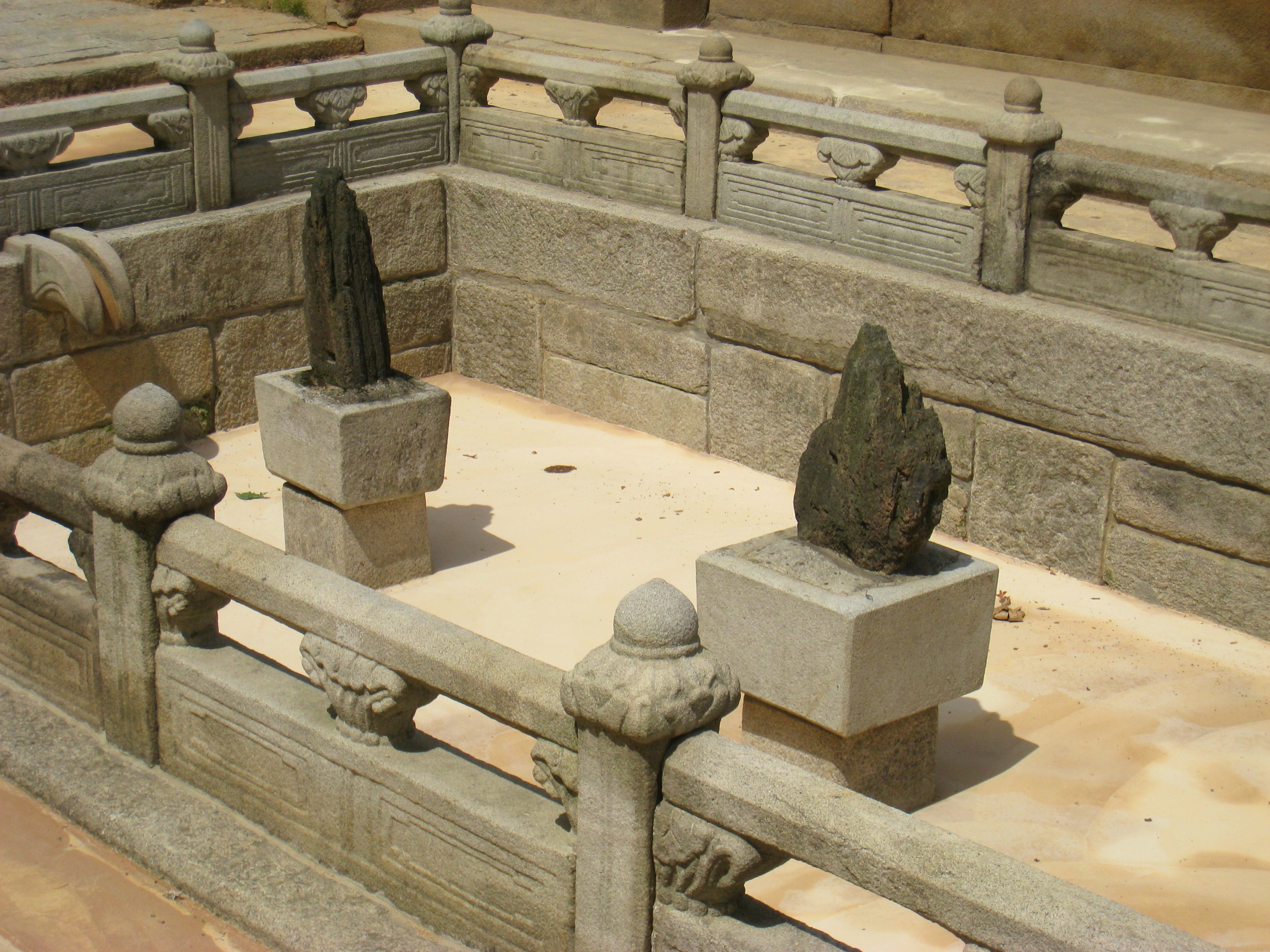 Changgeyonggung, Seoul, Korea.